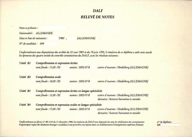 DALF